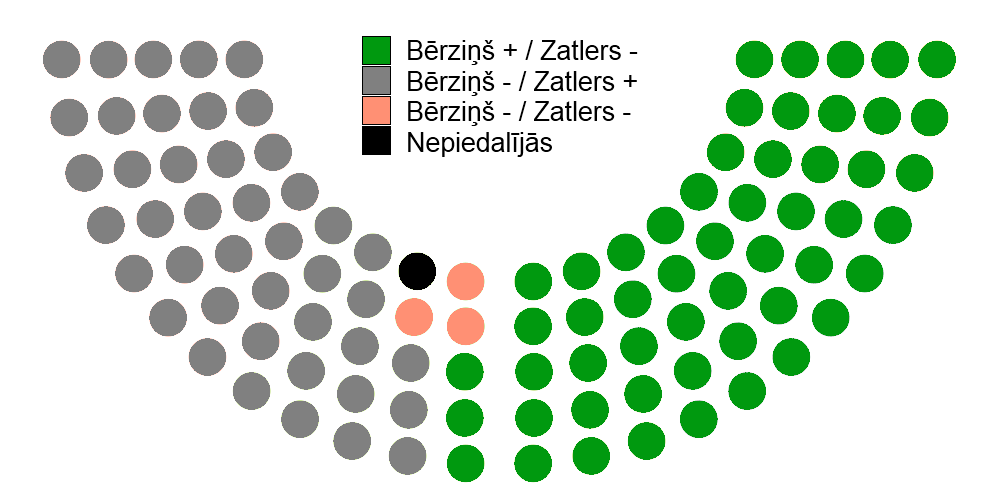 Graph showing the Saeima voting in Latvian presidential election, 2011.